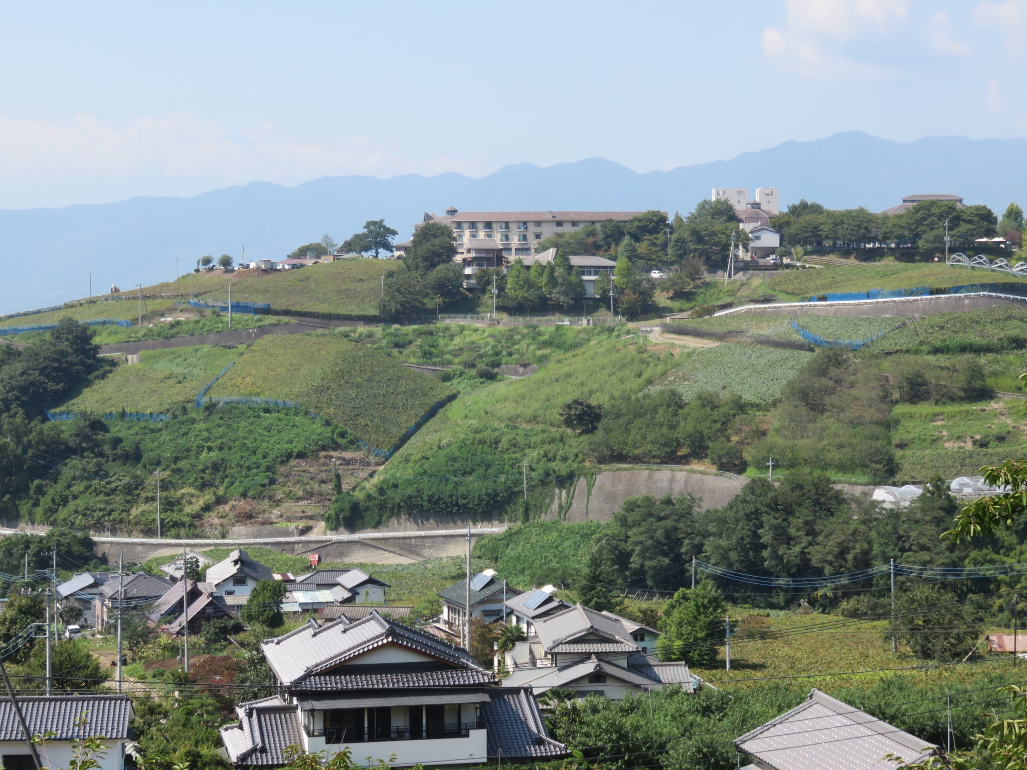 Katsunuma, Yamanashi